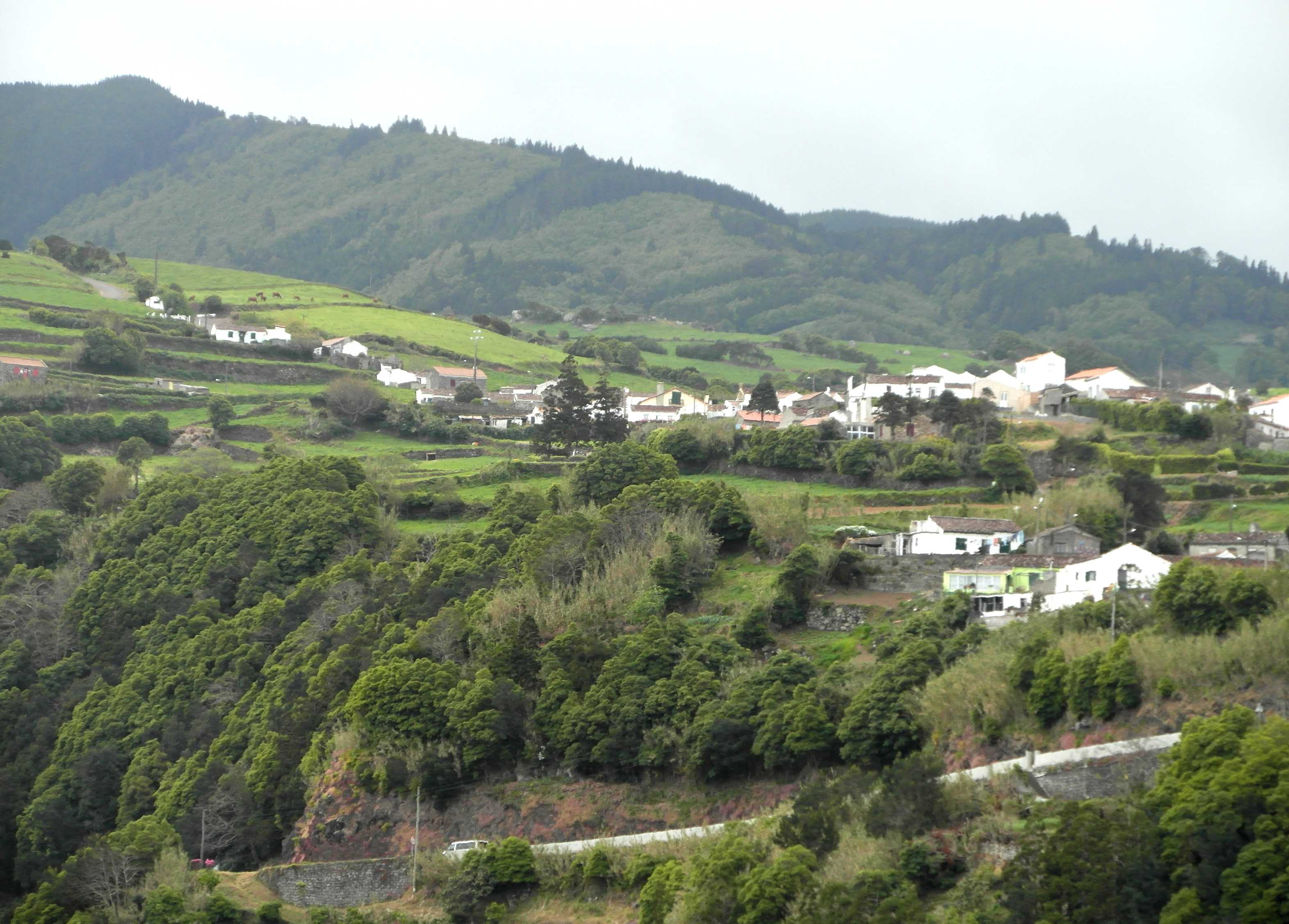 Lomba da Cruz